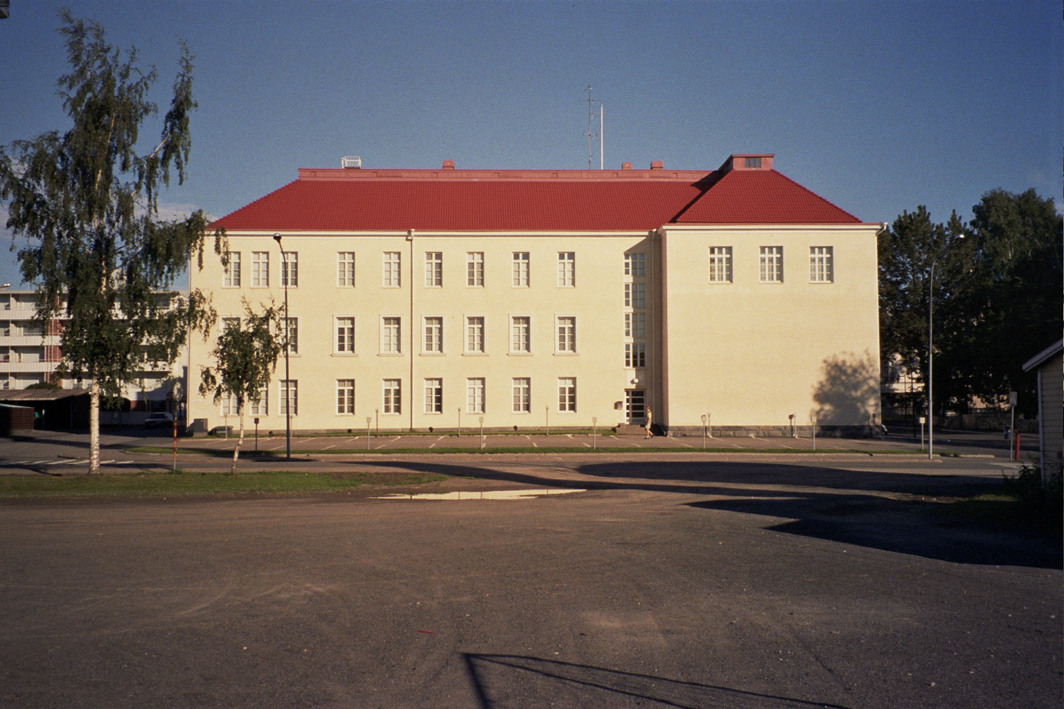 Suensaari school in Tornio, Finland. The building was constructed in the early 1900s and originally served as a Russian barrack. In 2008 it houses a gymnasium (Tornion yhteislyseon lukio), but a few years ago there were also three grades of comprehensive school (grades 7–9 in the Finnish school system).